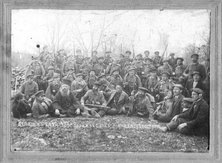 IMRO cheta in Kyustendil just before leaving for Vardar Macedonia - 4th (infront) is Mite Opilski, 5th Marko Sekulichki, 6th Ivan Burlyo